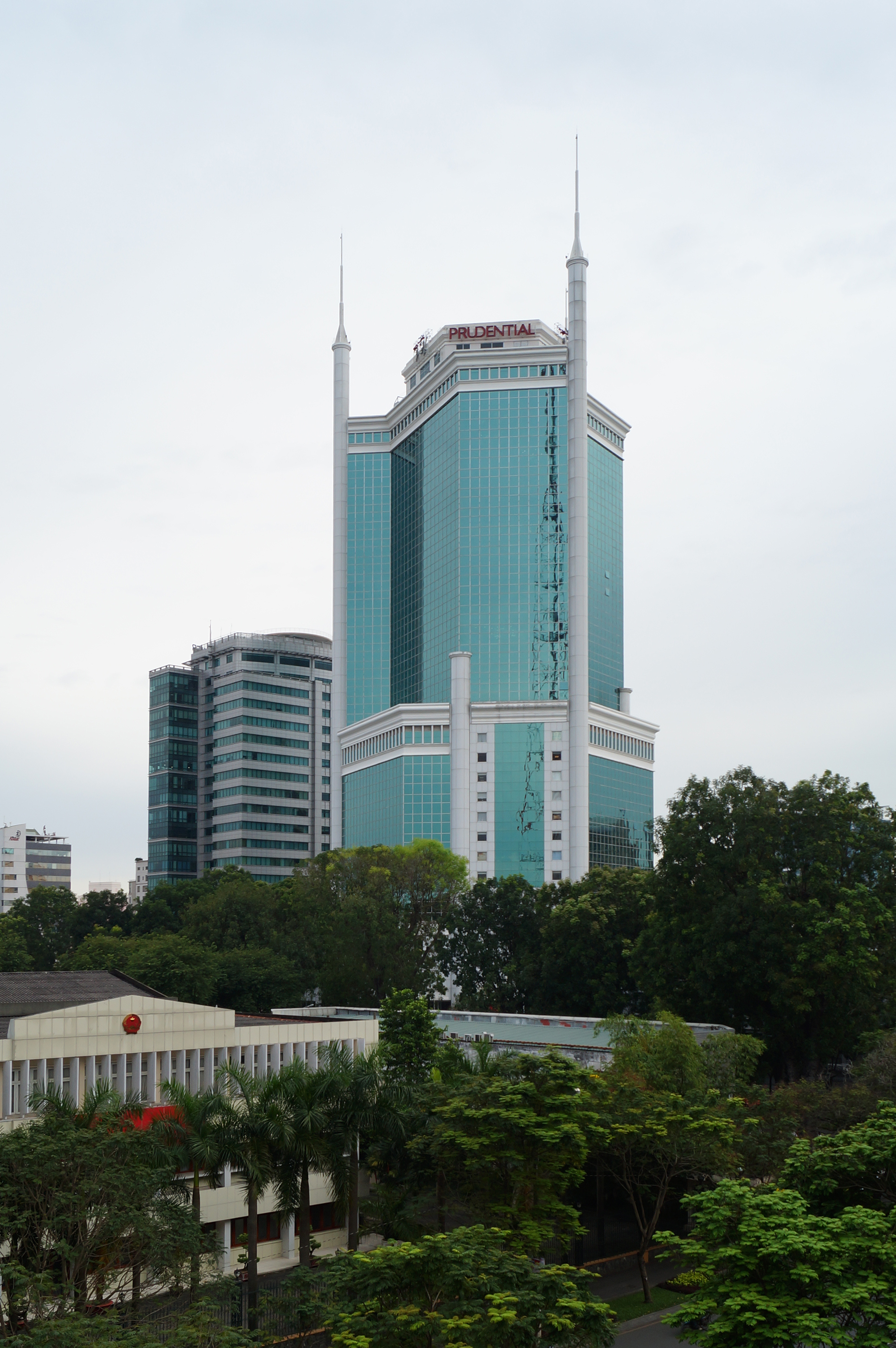 Saigon Trade Center and Green Power Tower on the left